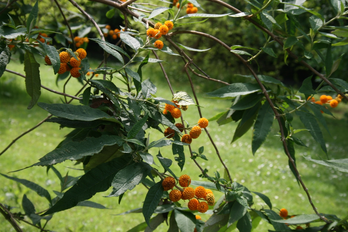 Buddleja globosa: Flower-heads and foliage